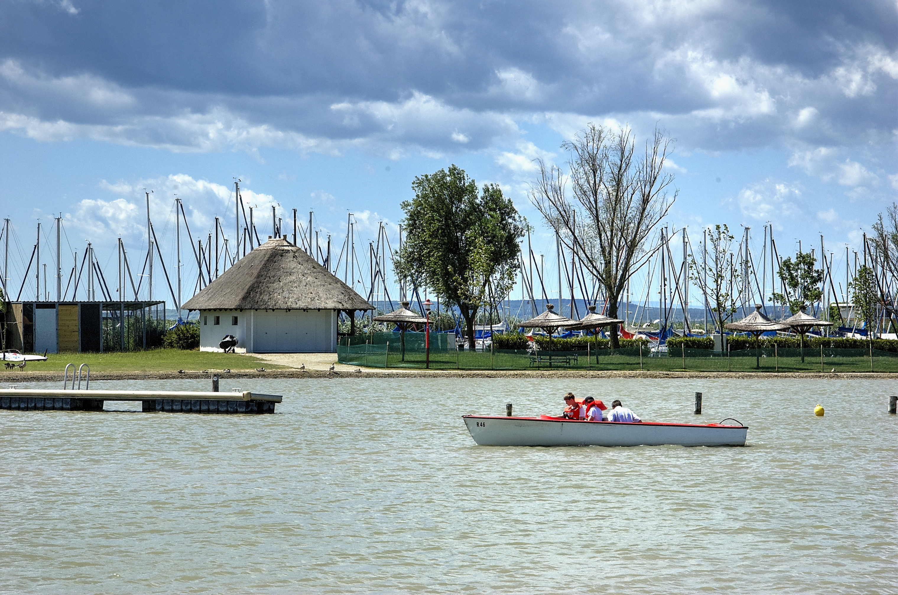 Yachting at Rust am See (Neusiedlersee)